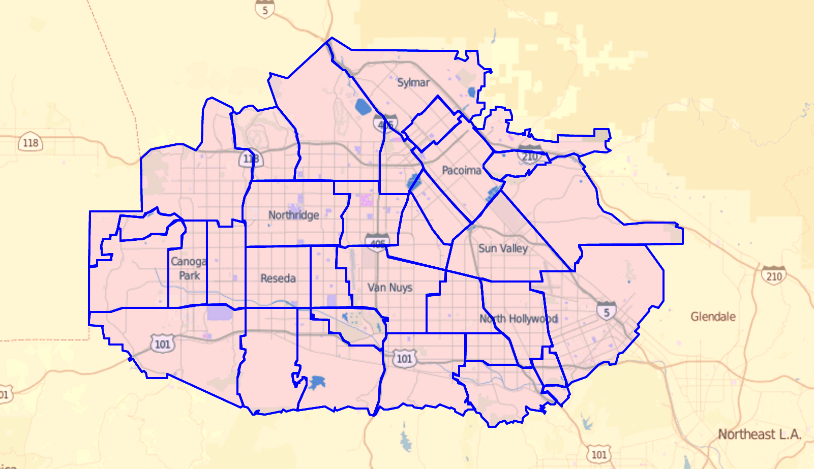 Map of neighborhoods in San Fernando Valley, California, as delineated by the Los Angeles Times Other information See CC-by-SA information at lower right corner of the original Web location.